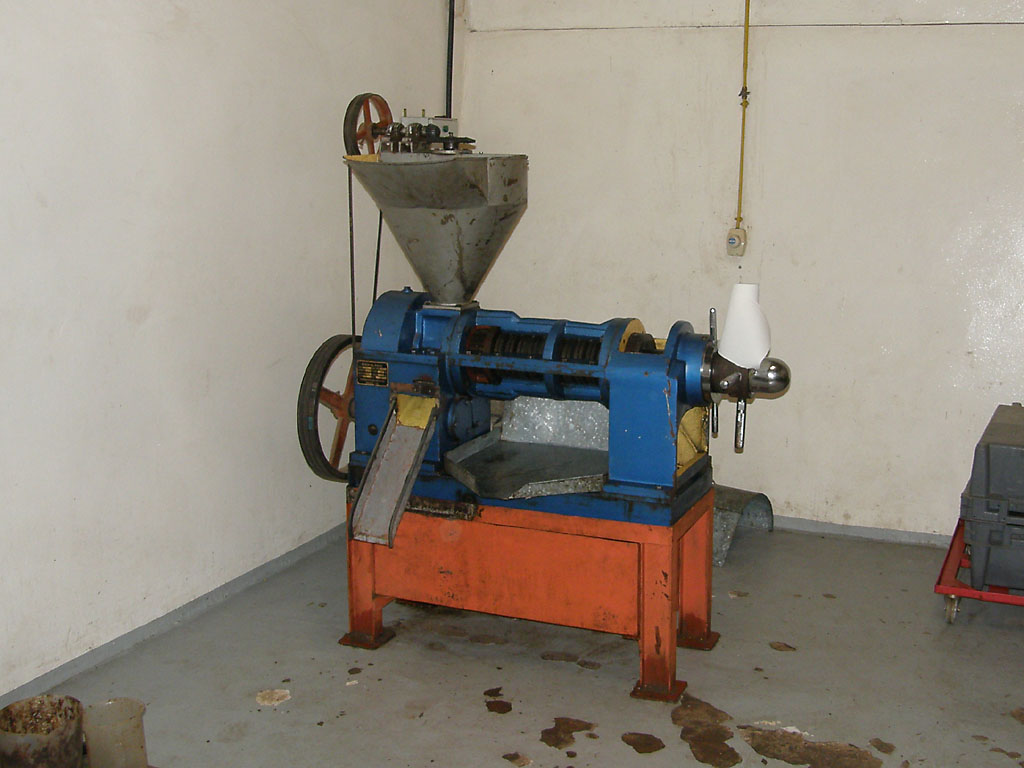 Artisanal oil press used for producing neem oil in Dakar, Senegal